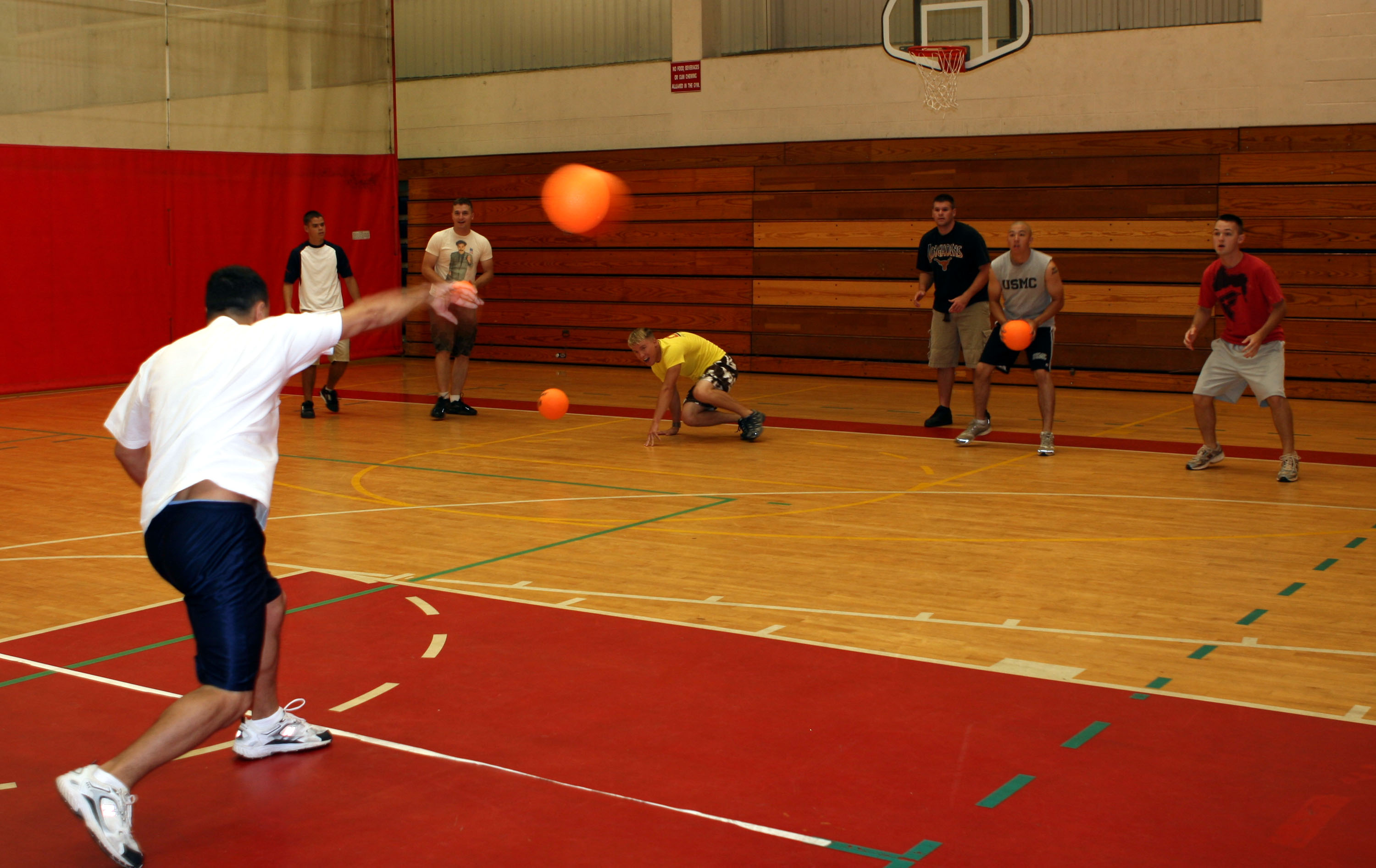 Eren Demirer, Patrol Squadron 47 Undertakers' player, releases a ball from the center line while the Marine Corps Air Facilities Renegades players strategically keep their distace during a 101 Days of Summer dodge-ball tournament at the Semper Fit Center Aug. 16.